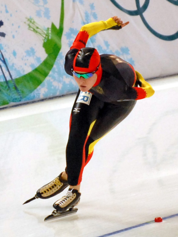 Stephanie Beckert at the Vancouver 2010 Olympics.